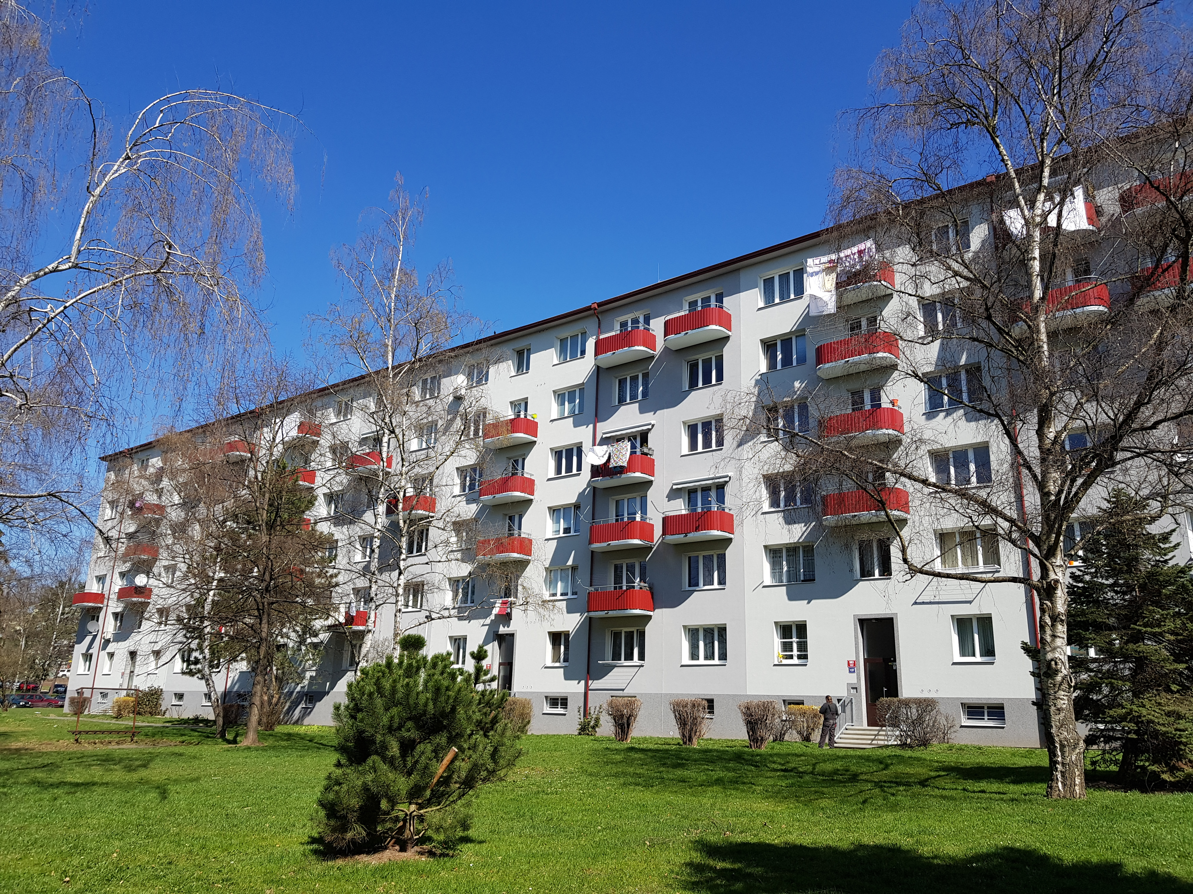 The houses No. 566/131, 565/133, 564/135 and 563/137, Poděbradská Street, Prague 14 - Hloubětín